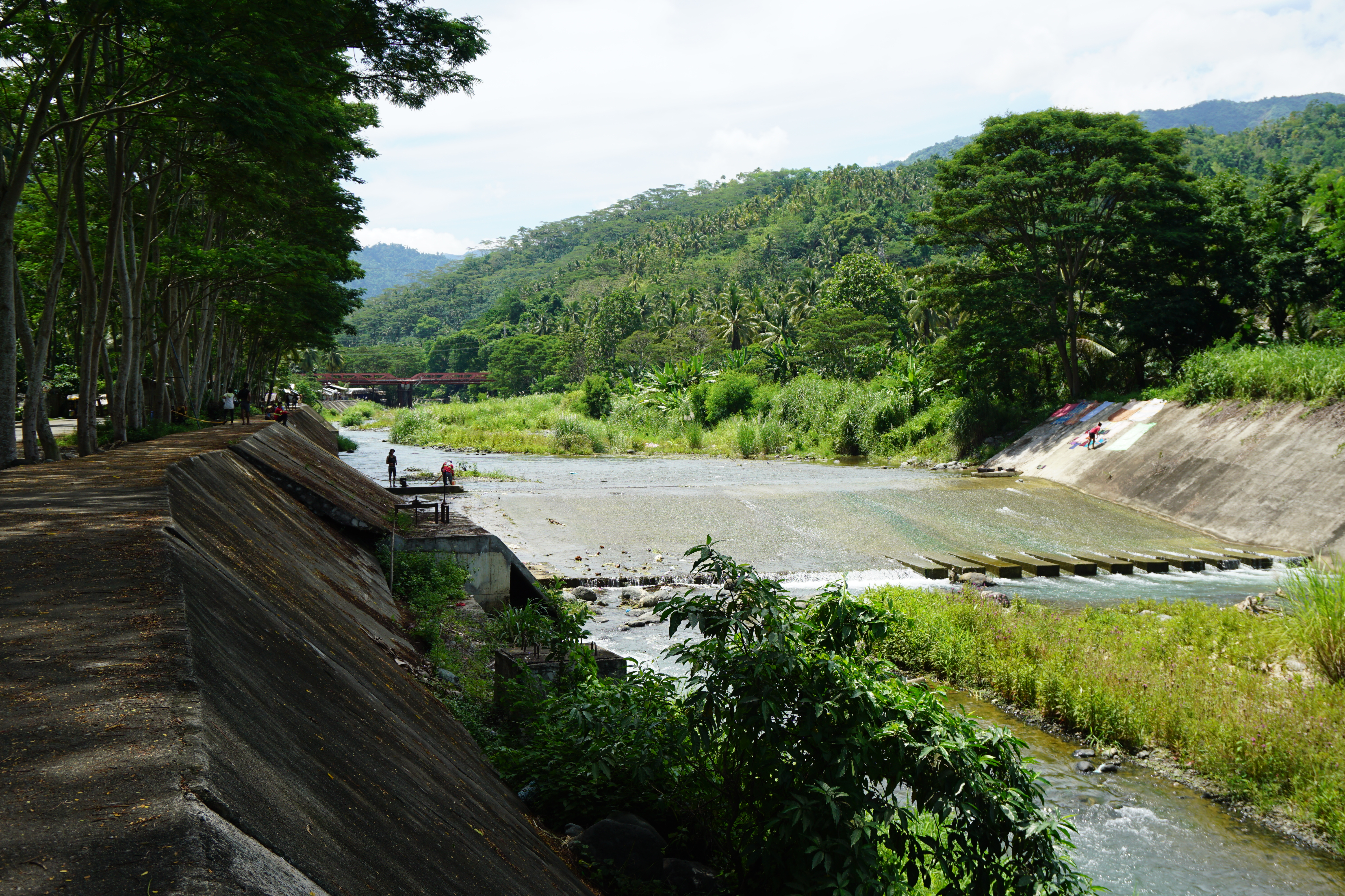 Sanitago River in Santiago, Agusan del Norte (Pay-Pay Bridge at the background)